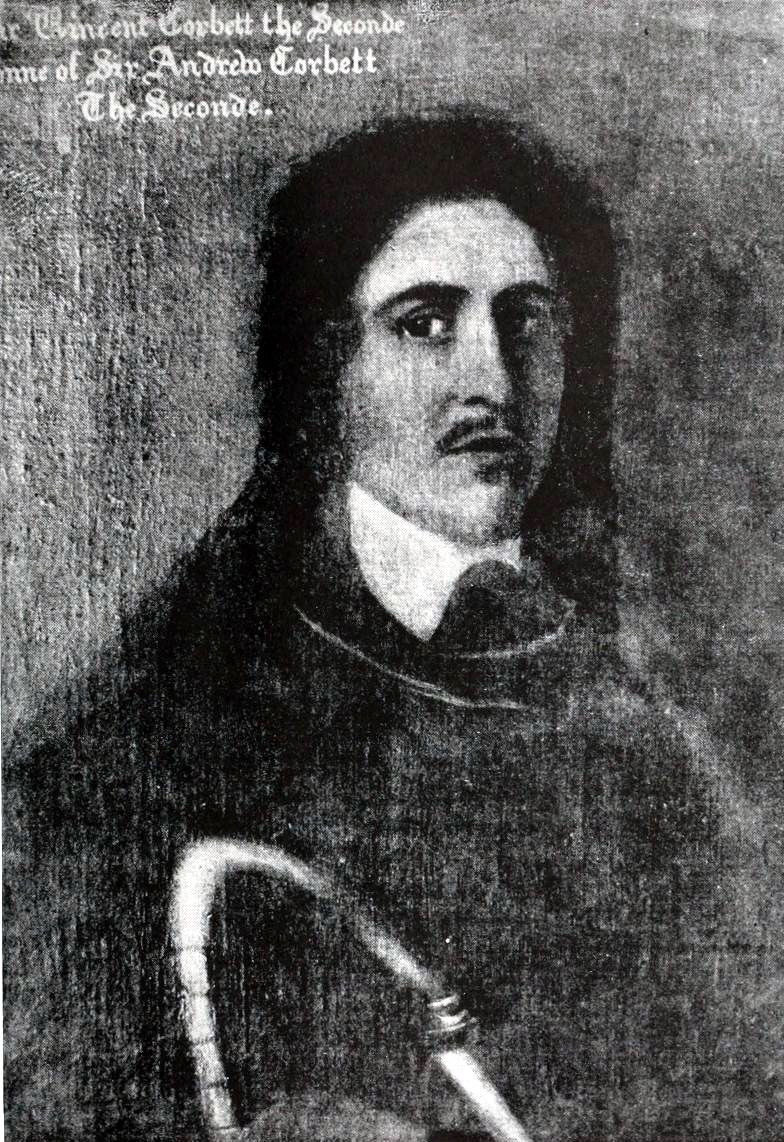 Sir Vincent Corbet, 1st Baronet of Moreton Corbet, Shropshire. A royalist cavalry commander in the Midlands during the English Civil War. Monochrome photo of mid-17th century oil painting.